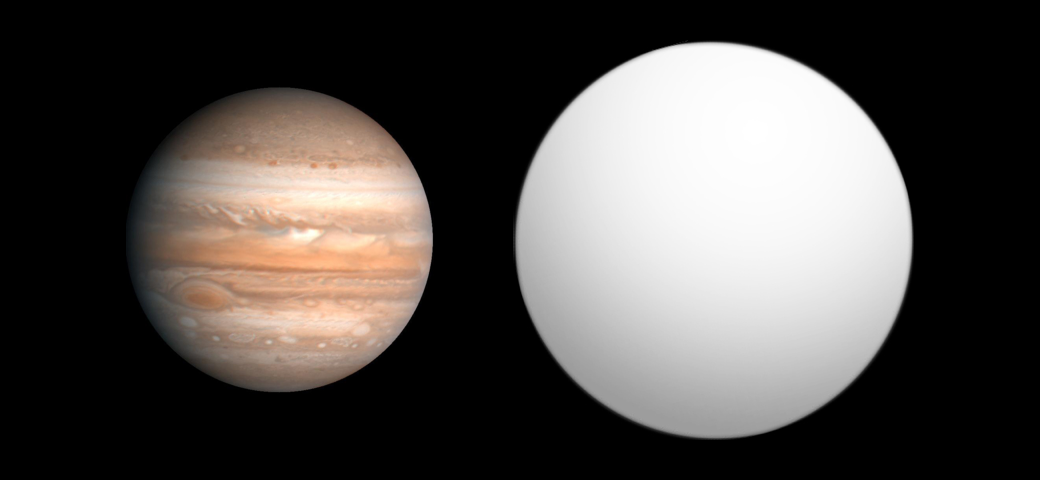 Comparison of best-fit size of the exoplanet HR 8799 c with the Solar System planet Jupiter, as reported in the Open Exoplanet Catalogue[1] as of 2015-11-14. ↑ Open Exoplanet Catalogue (2015-11-14). Retrieved on 2015-11-14.